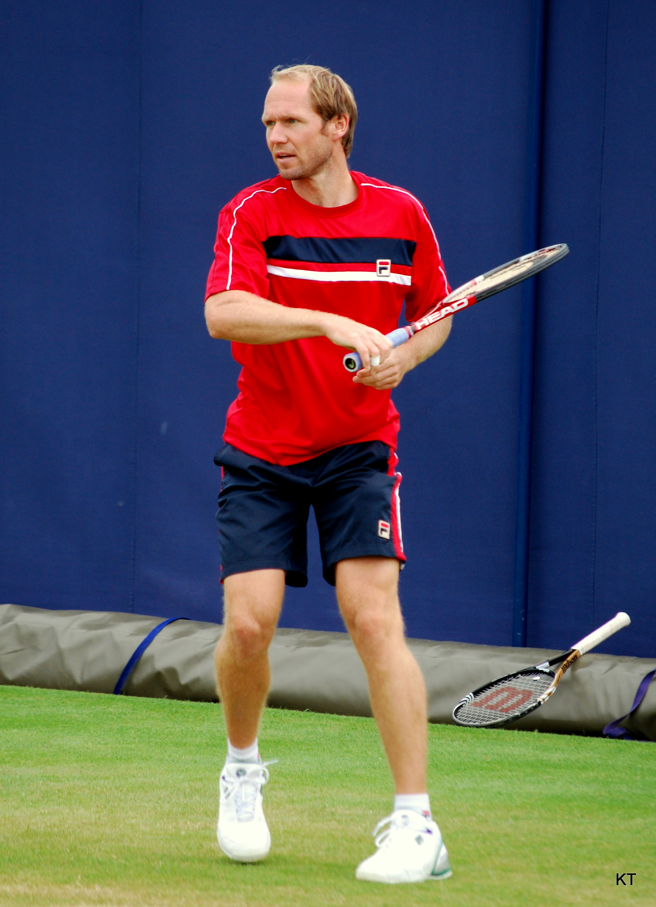 Rainer Schüttler during a practice session. Day 1 of the Aegon Championships, Queen's Club 2011.